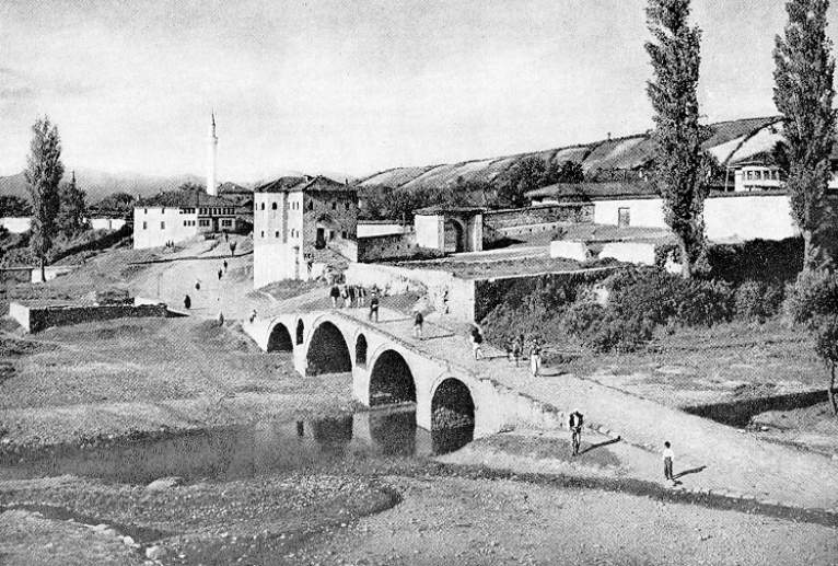 The Islam Begu Bridge in Gjakova. I've got the right of publishing in Wikipedia from the director of the Institute for Cultural Monuments Protection